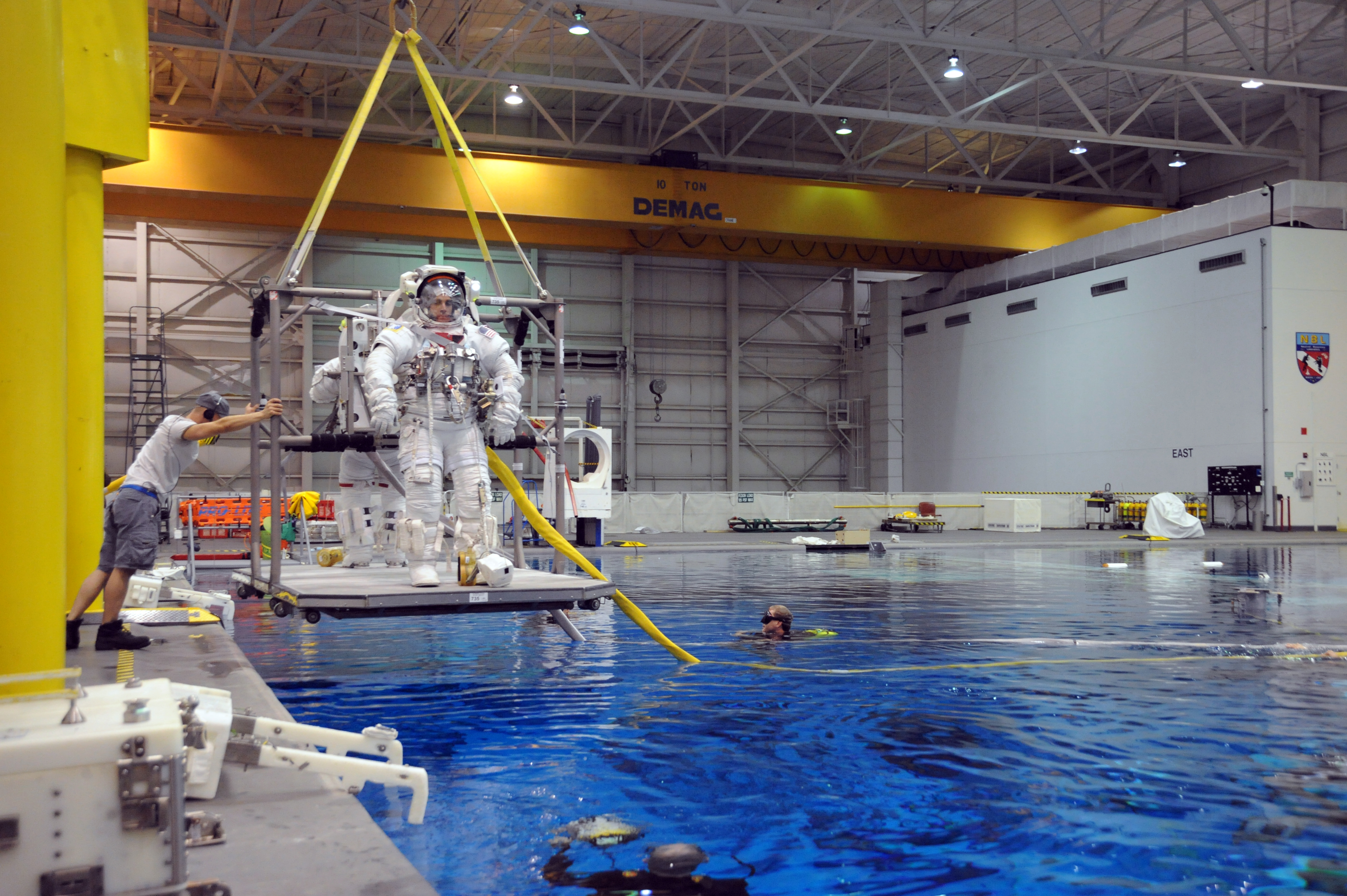 HOUSTON (March 24, 2009) Lt. Cmdr. Chris Cassidy is lowered into the Neutral Buoyancy Lab (NBL) for a mission training session in Houston. The NBL is a pool that simulates zero gravity to train astronauts for upcoming missions. The NBL contains full mock-ups of the International Space Station for the astronauts to train with. Cassidy, a U.S. Navy SEAL, is a mission specialist on the upcoming mission STS-127 to the International Space Station scheduled for June of this year. (U.S. Navy photo by Mass Communication Specialist 2nd Class Dominique M. Lasco/Released)